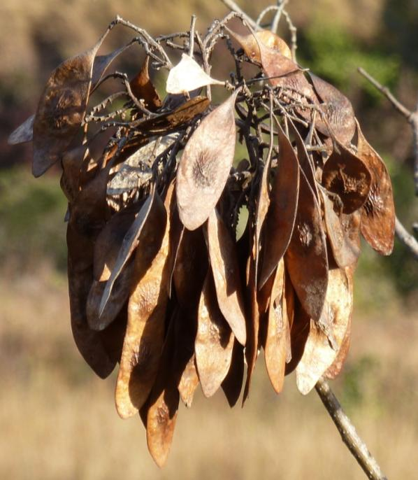 Seedpods of the Climbing flat bean, near Louwsburg, KwaZulu-Natal